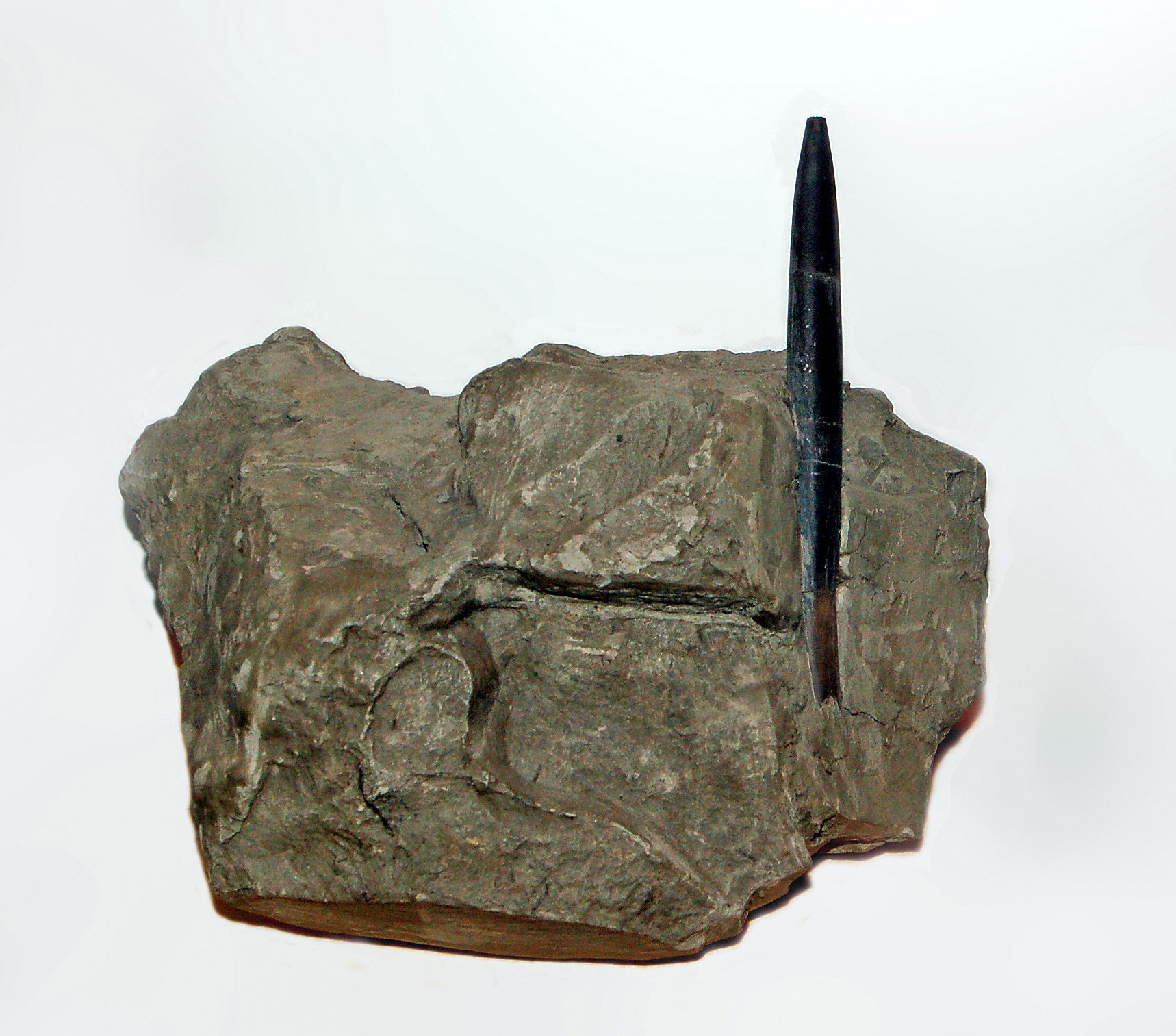 Belemnites hastatus from Switzerland